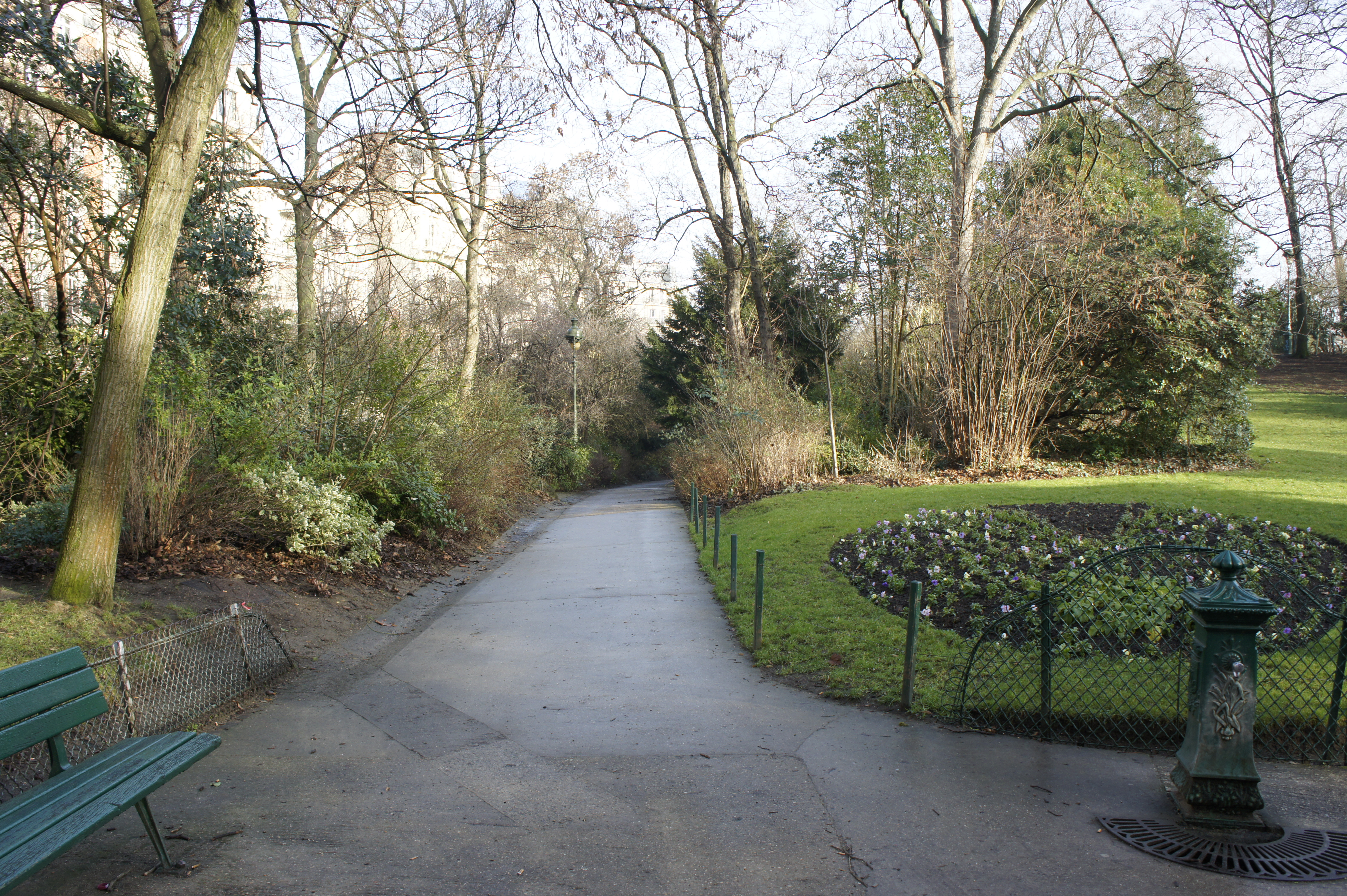 Park Buttes Chaumont, Paris, France.